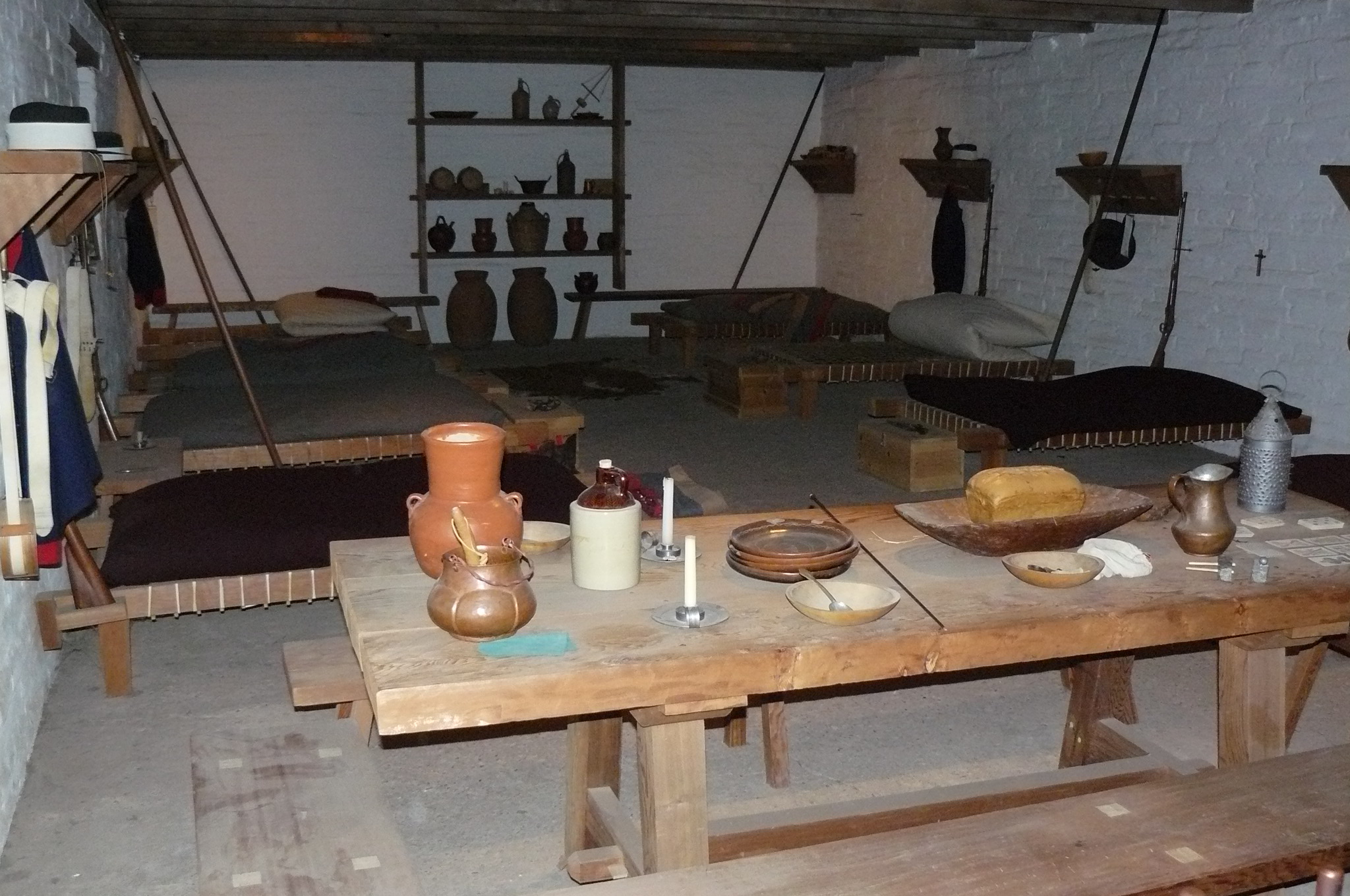 Inside picture El Presidio de Sonoma or Sonoma Barracks, Sonoma